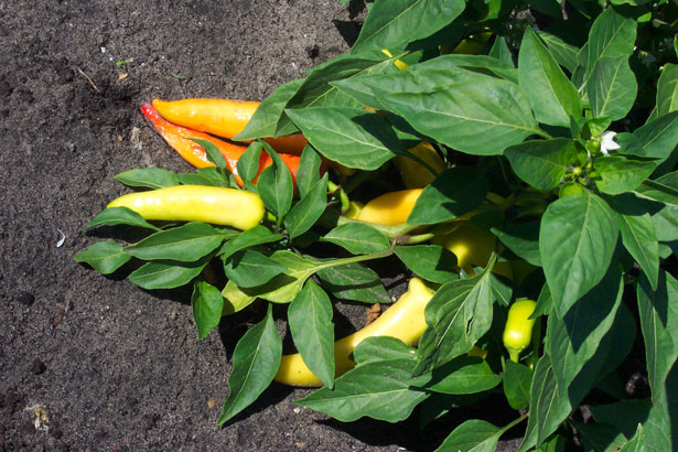 A banana pepper plant with ripe fruit.